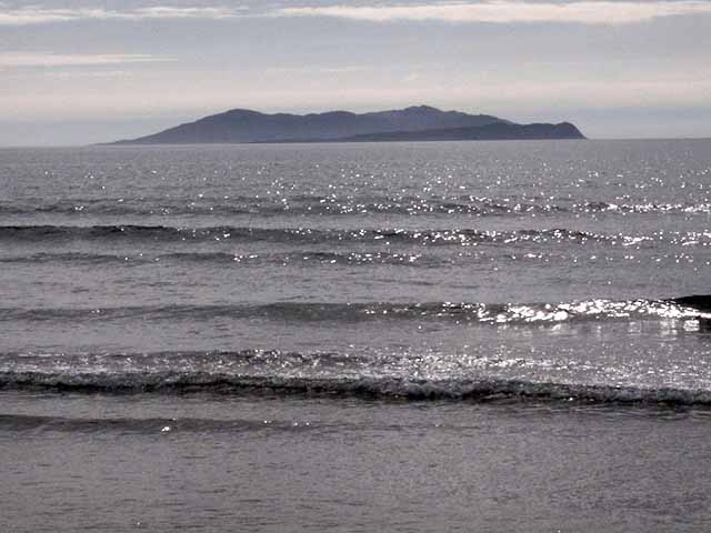 Caher and Inishturk Caher is a small uninhabited island rich in early Christian remains. Inishturk is a larger, inhabited island further out to sea. Seen from Carrownisky Strand on the coast of Mayo.